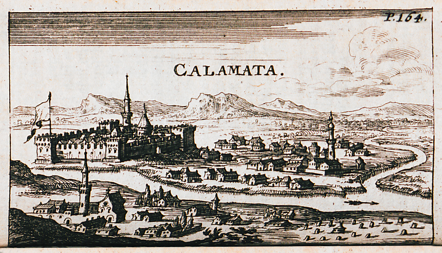 Kalamata town, southern Peloponnese, Greece. Jacob von Sandrart. Kurtze und vermehrte Beschreibung von dem Ursprung, Aufnehmen, Gebiete und Regierung der weltberühmten Republik Venedig, Nürnberg, Kupfferstechern und Kunst-Händlern, 1687.